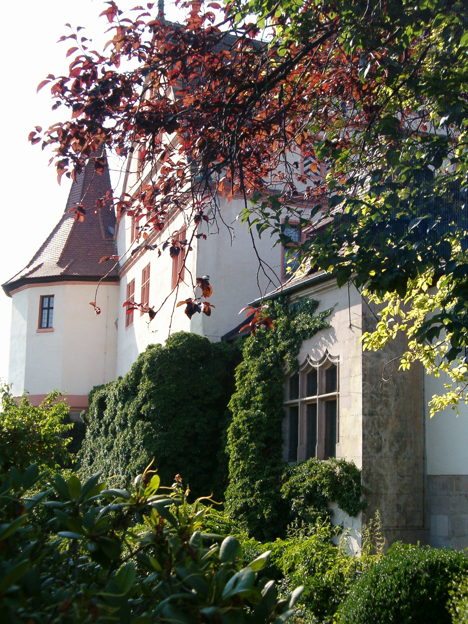 Schloss Ratibor, Roth, Bavaria, Germany